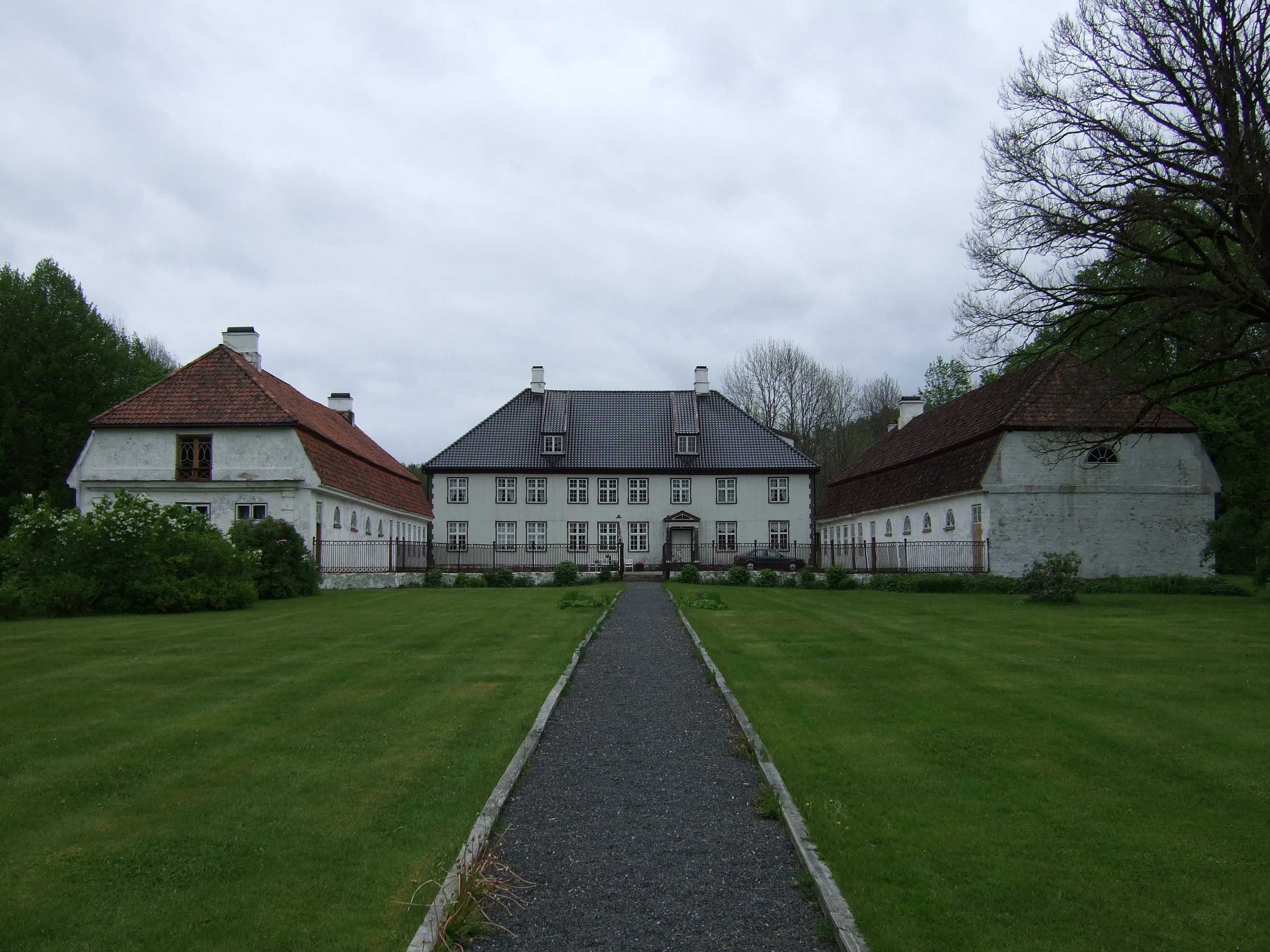 Naes vaerk, Tvedestrand, Norway. Main building